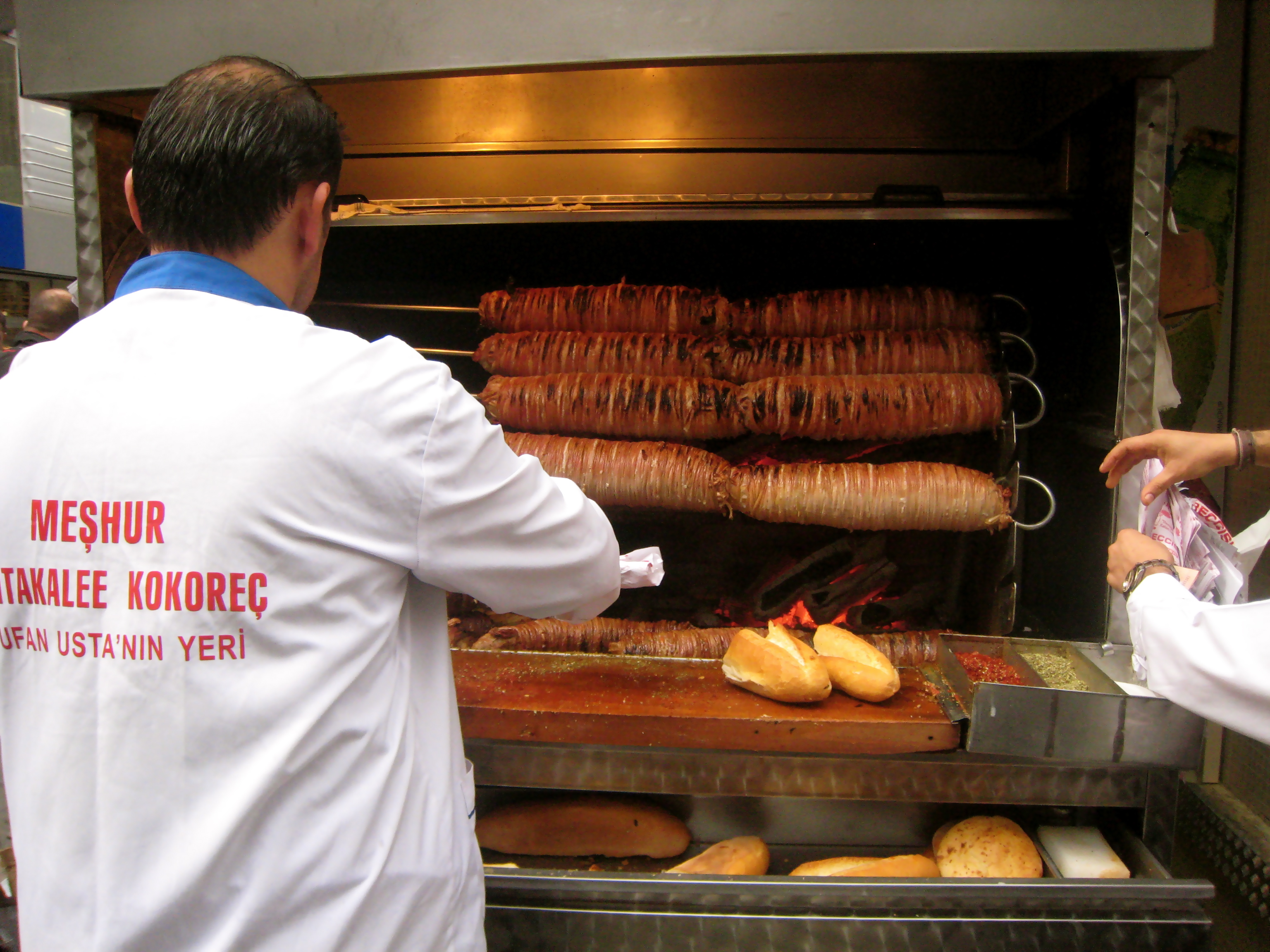 Kokoreç in Istanbul.